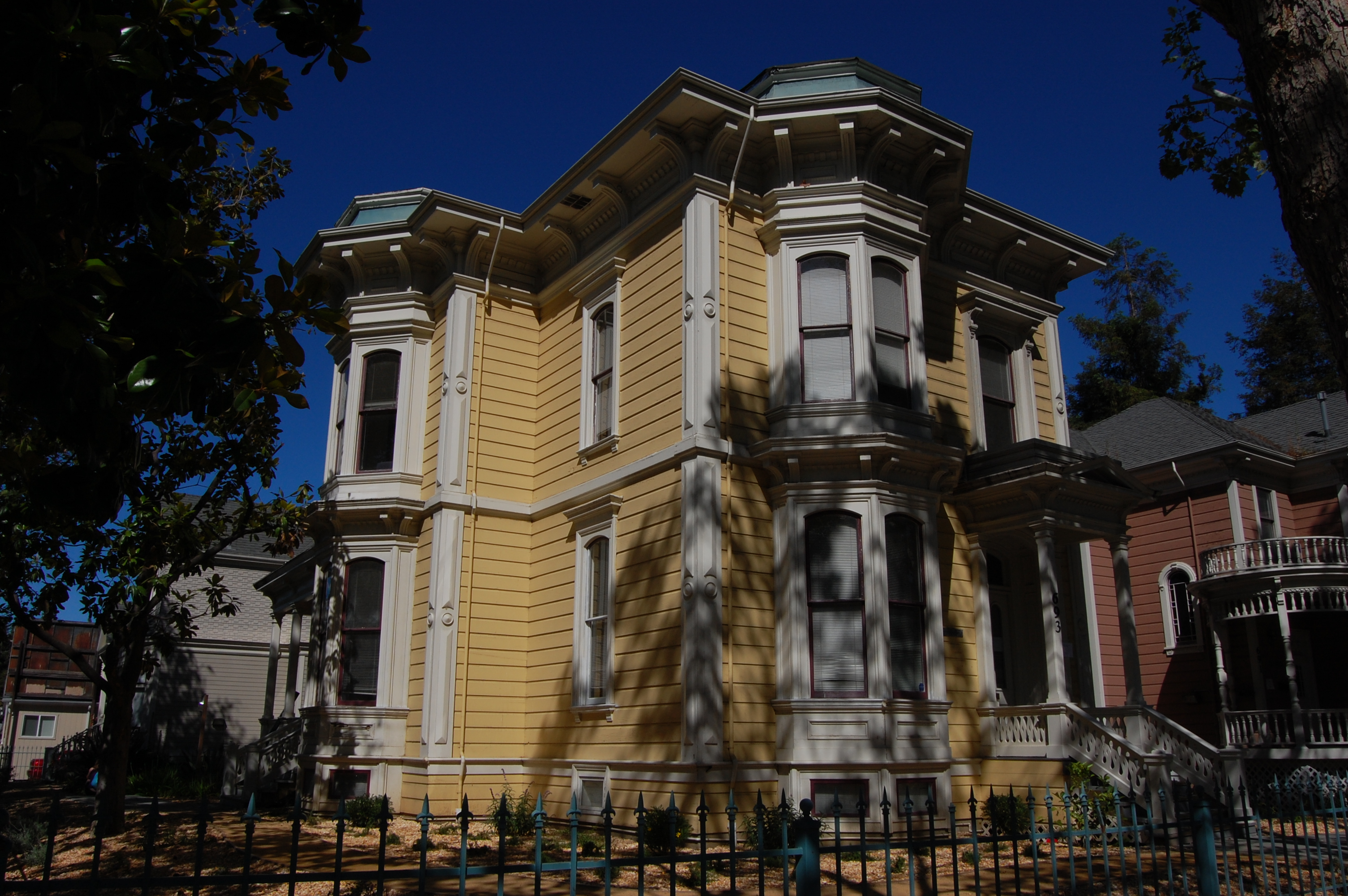 Ross/Steffani/Byron residences. Built circa 1890s. 693 South Second Street. San Jose, California, USA